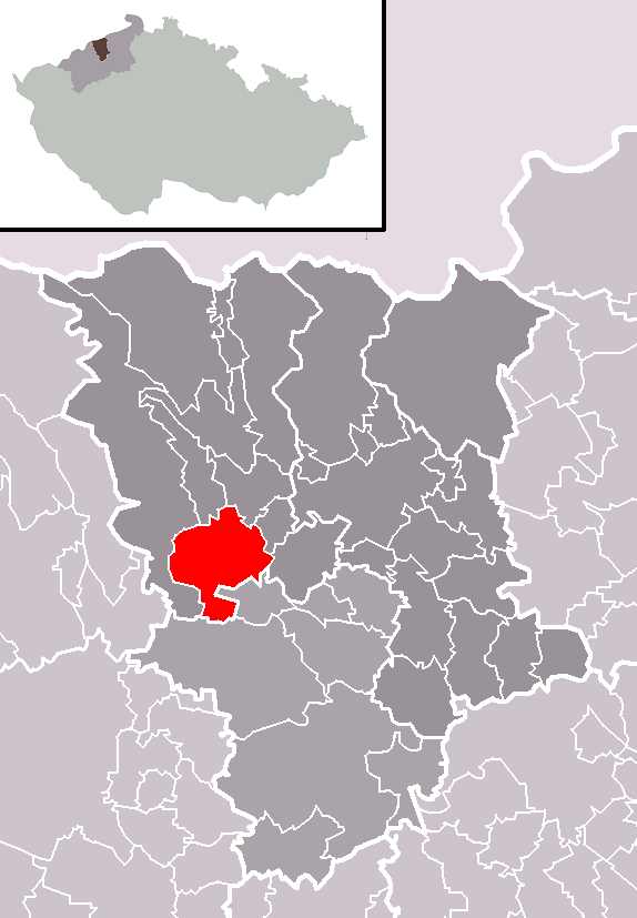 Location of Duchcov town within Teplice District and administrative area of Teplice as a Municipality with Extended Competence.